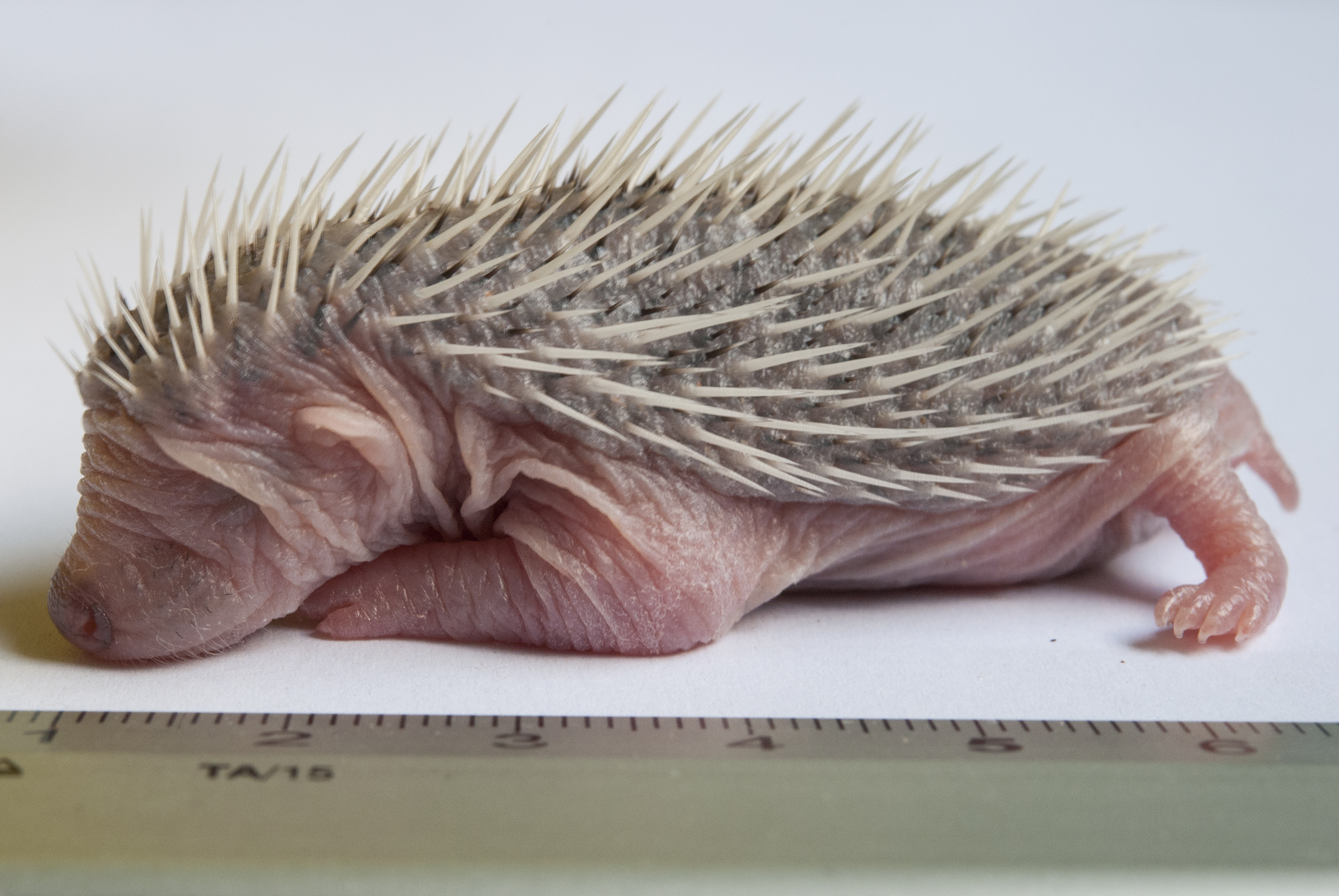 One day old Erinaceus europaeus.